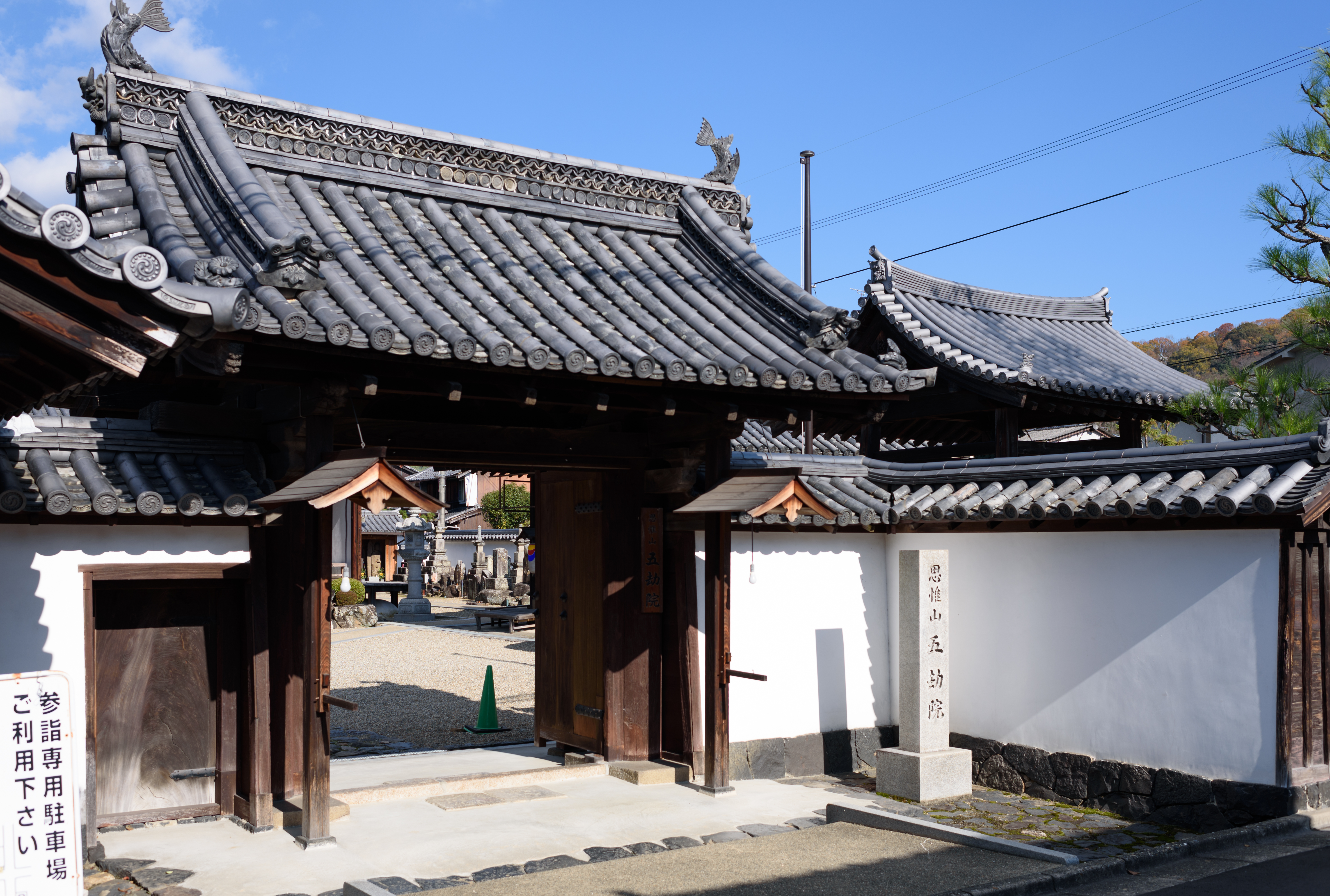 Gokōin, a branch temple of Tōdai-ji, in Nara, Nara Prefecture, Japan